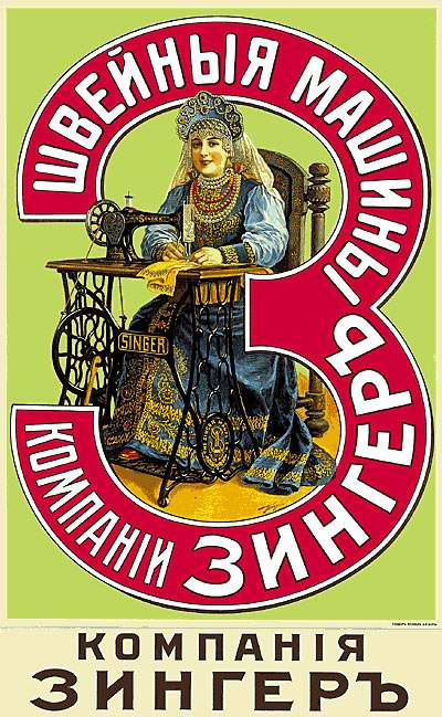 Singer Company, placard by Vladimir Taburin